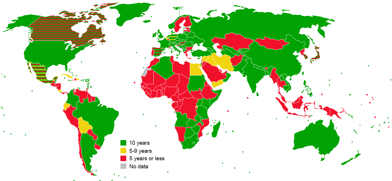 A world map showing passport validity for adults